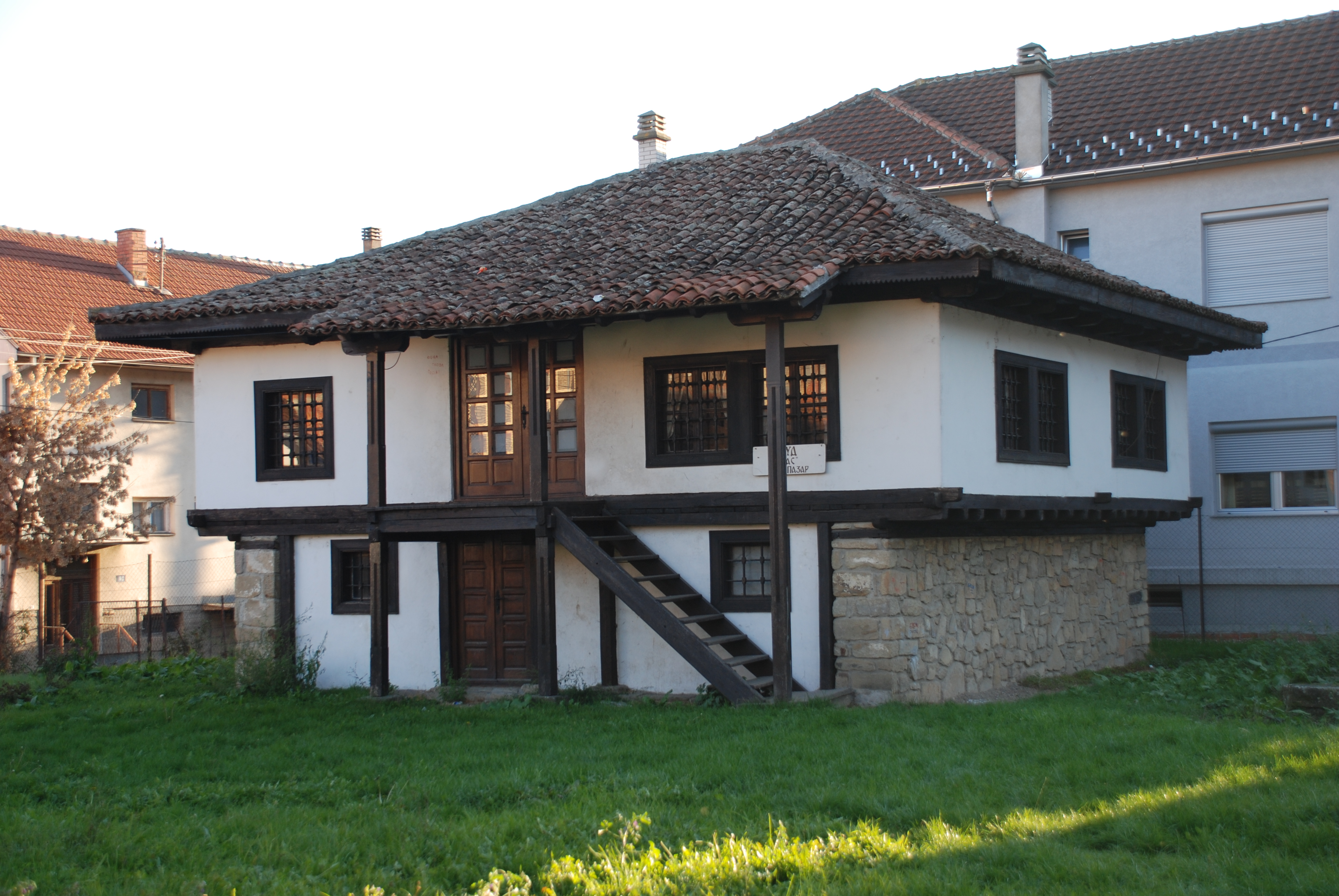 The building „Mitropolija“ in Novi Pazar